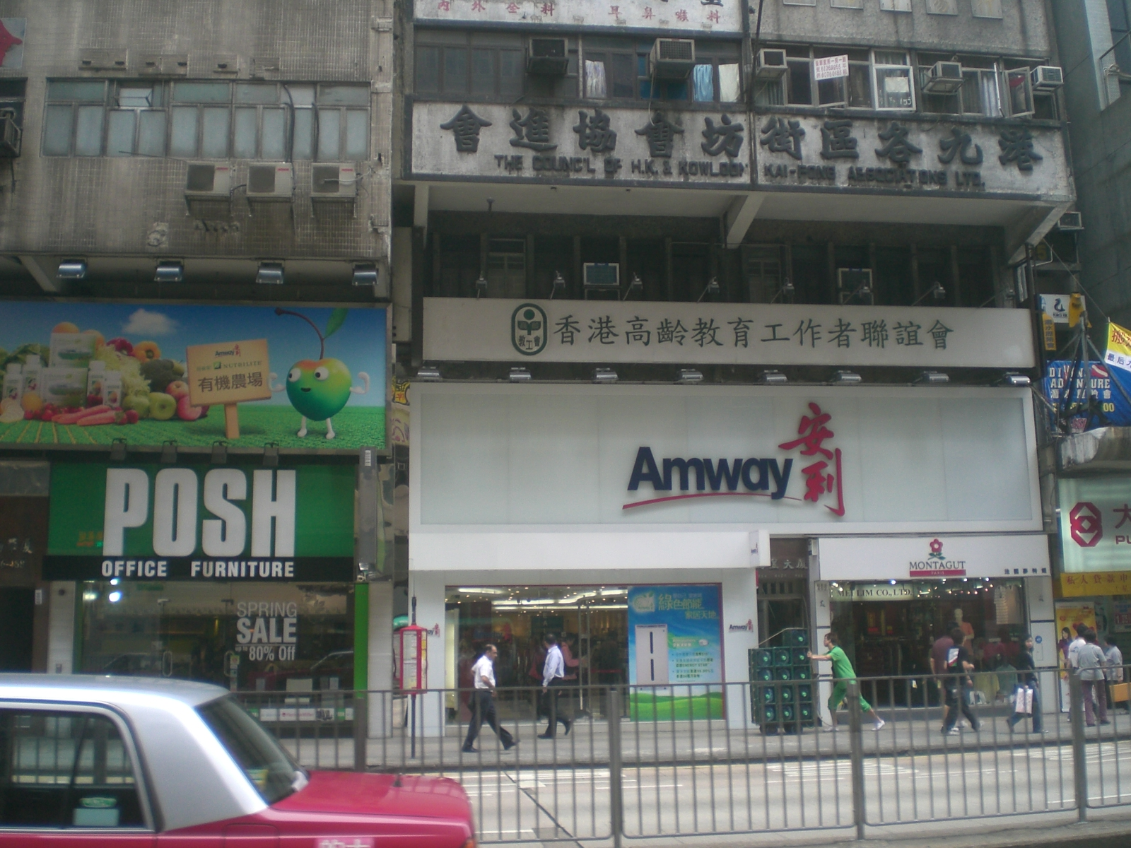 安利 & 科譽 - 油麻地zh:彌敦道分店